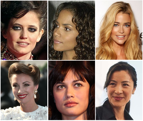 Bond girls compilation mural